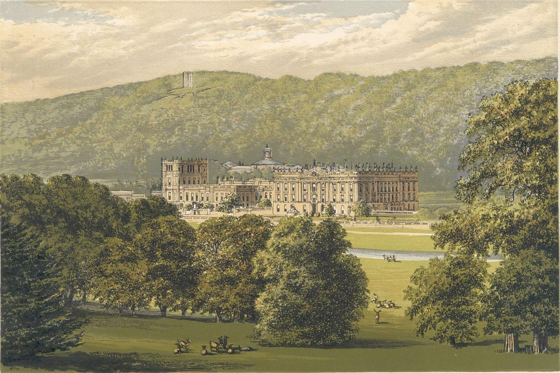 A view of Chatsworth from the south west after the Bachelor Duke's alterations. The north wing, culuminating in the Belvedere Tower, is on the left. The stables peep out from behind the house and the Hunting Tower can be seen in Stand Wood.